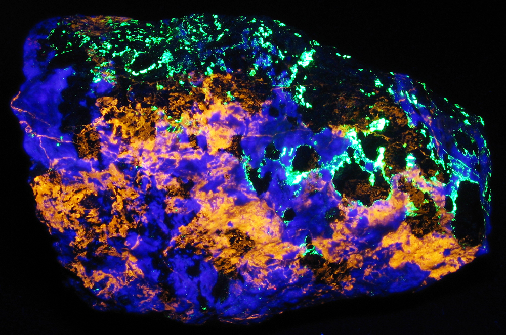 clinohedrite coating hardystonite, with franklinite surrounded by willemite reaction rims. Orange fluorescence under 9 Watt / 12 Volt short wave (254 nm) UV light. Franklin, New Jersey